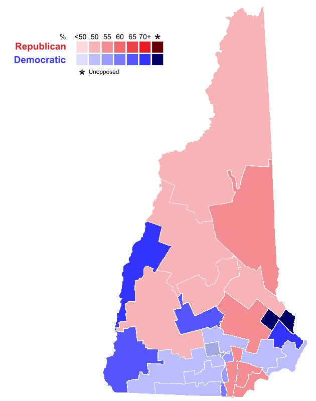 Results of New Hampshire State Senate elections, 2018